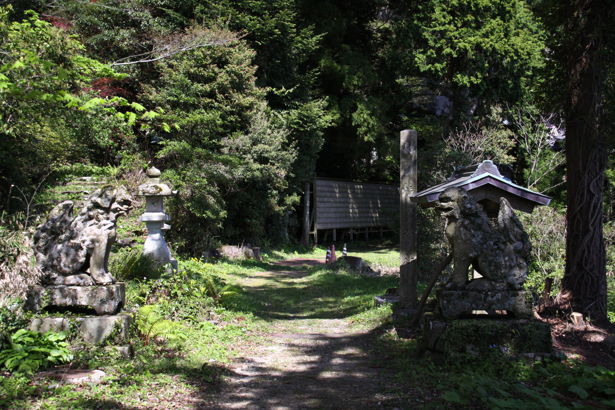 Takuhi jinja Komainu